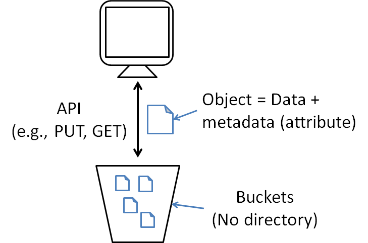 Object data store with using API